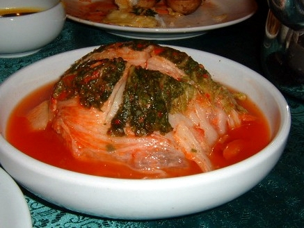 A half-cabbage of kimchi made in the royal Kaesong style from YongSusan at 950 South Vermont Avenue in Los Angeles (213-388-3042).